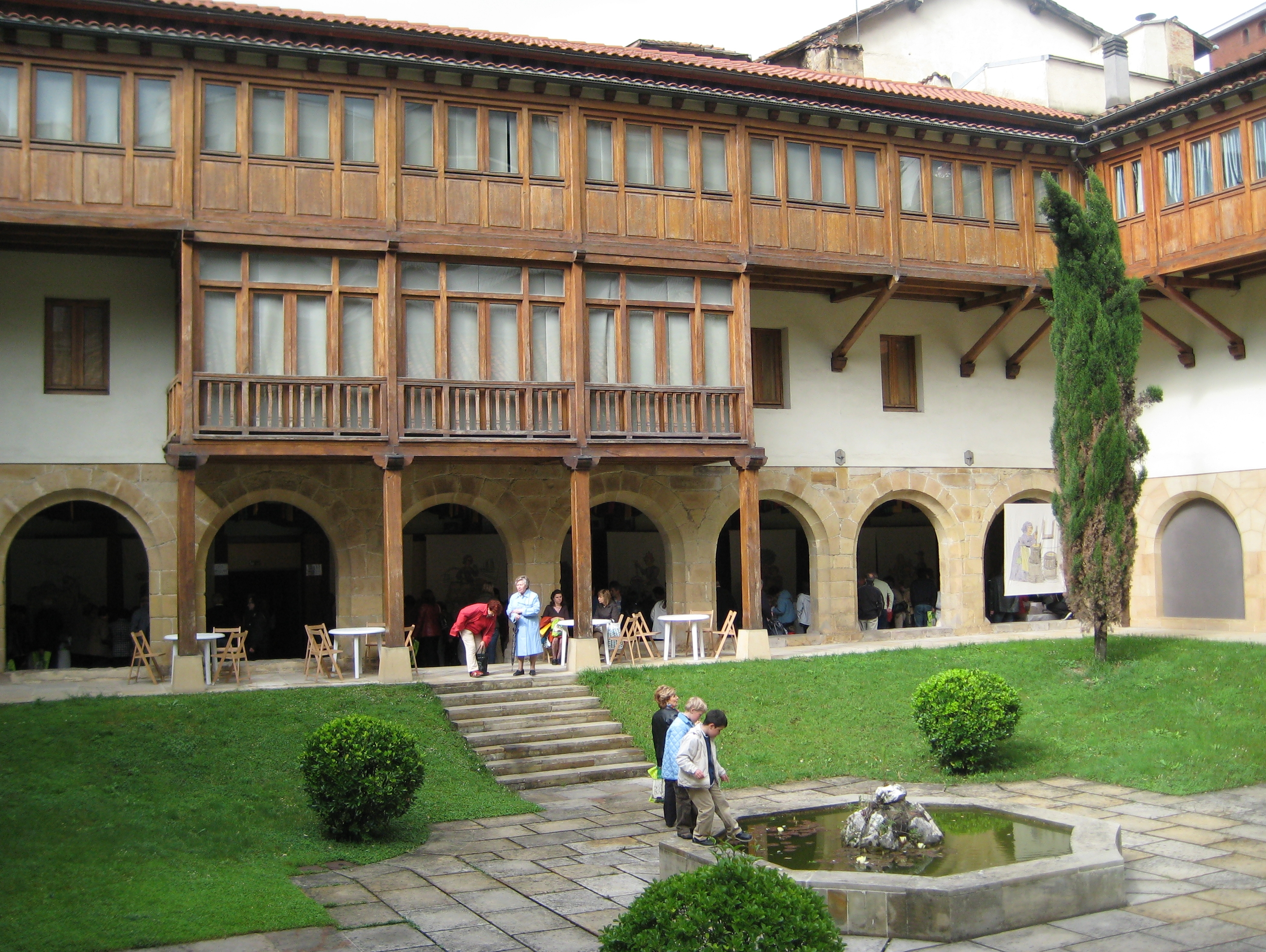 Diocesan Sacred Art Museum, former Convent of the Incarnation, in Atxuri, Bilbao.